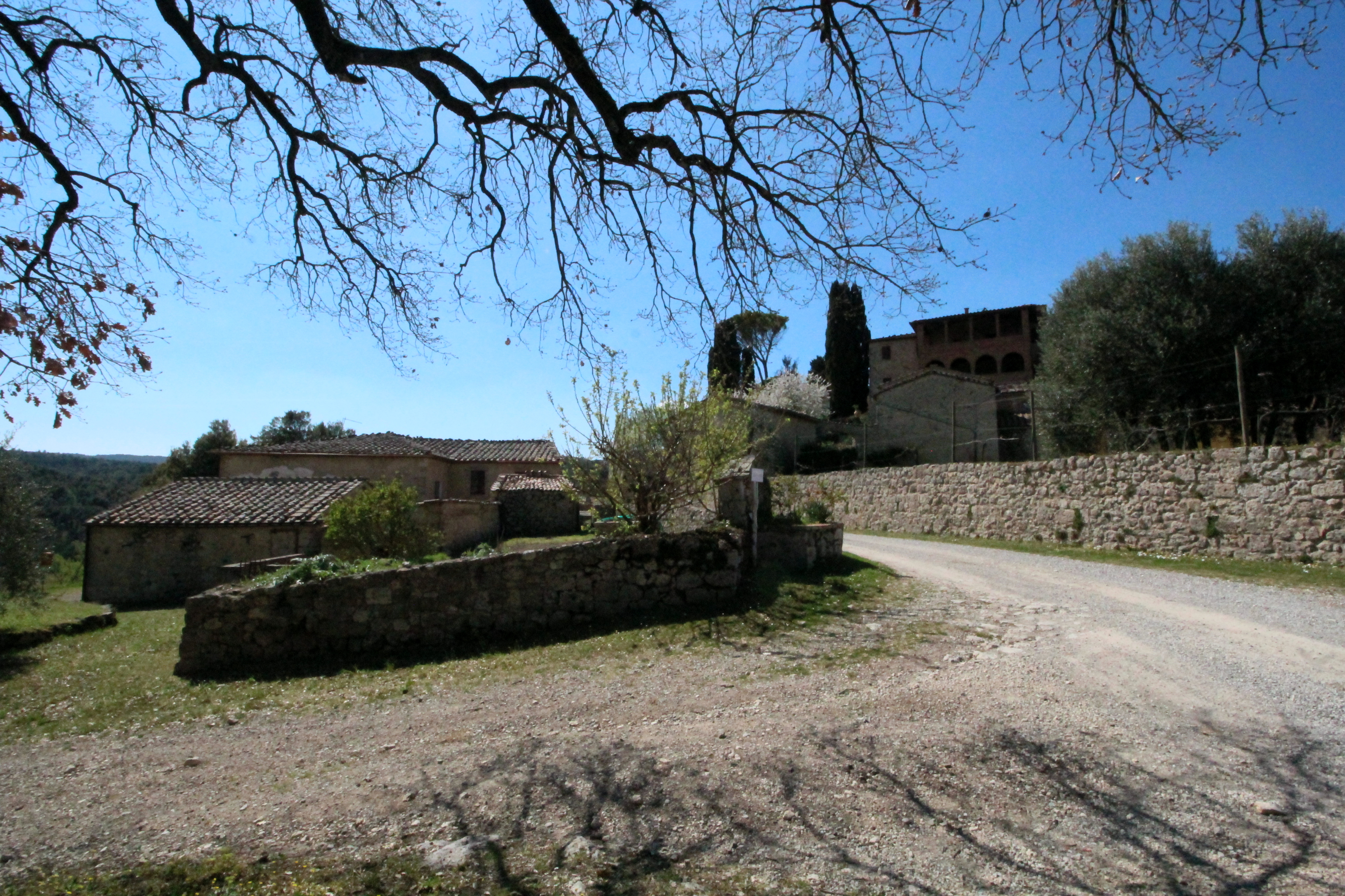 Campriano, Village in the municipality of Murlo, Province of Siena, Tuscany, Italy